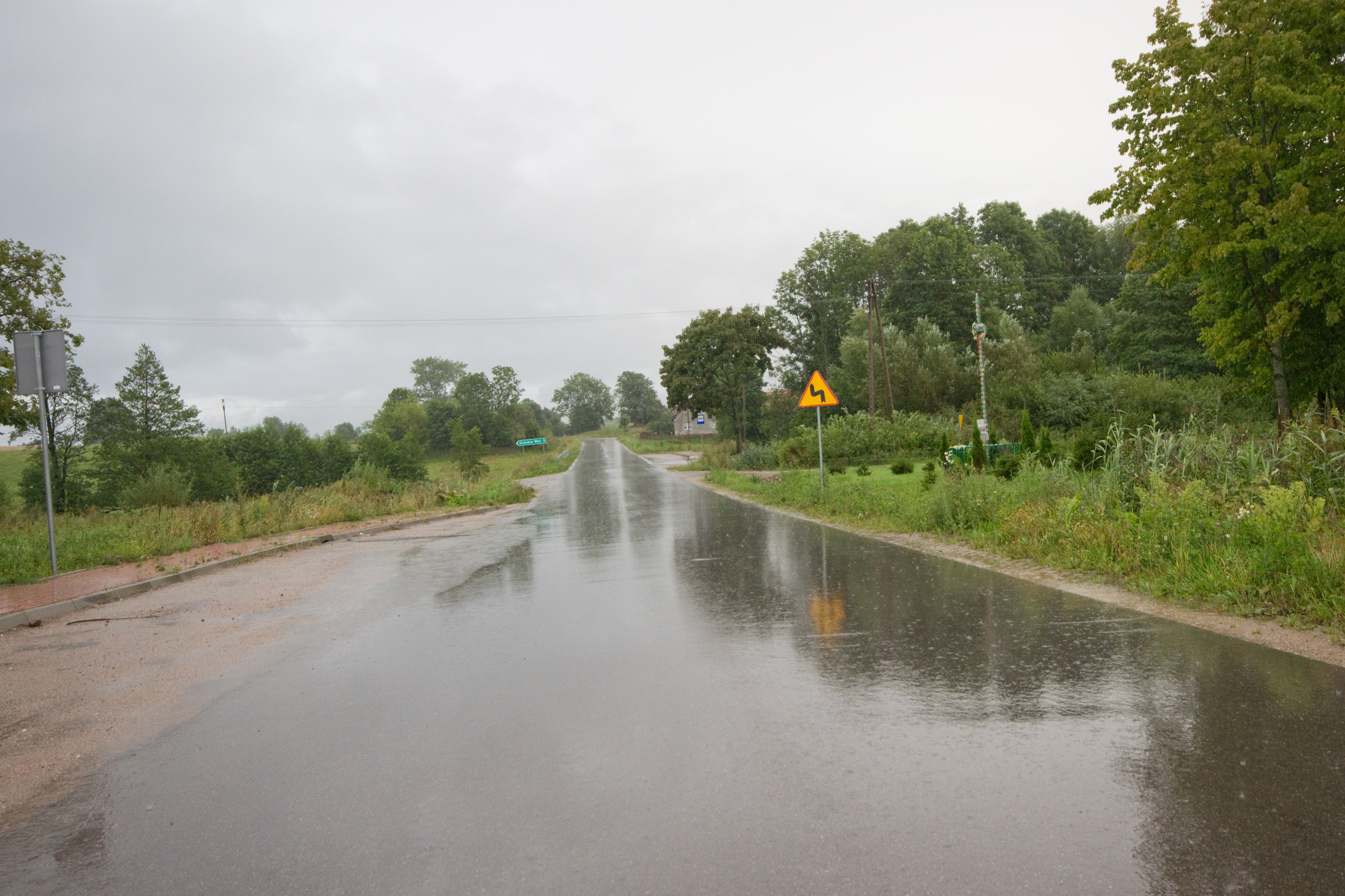 Wężewo, gmina Kowale oleckie, powiat olsztyński, Warmian-Masurian Voivodeship